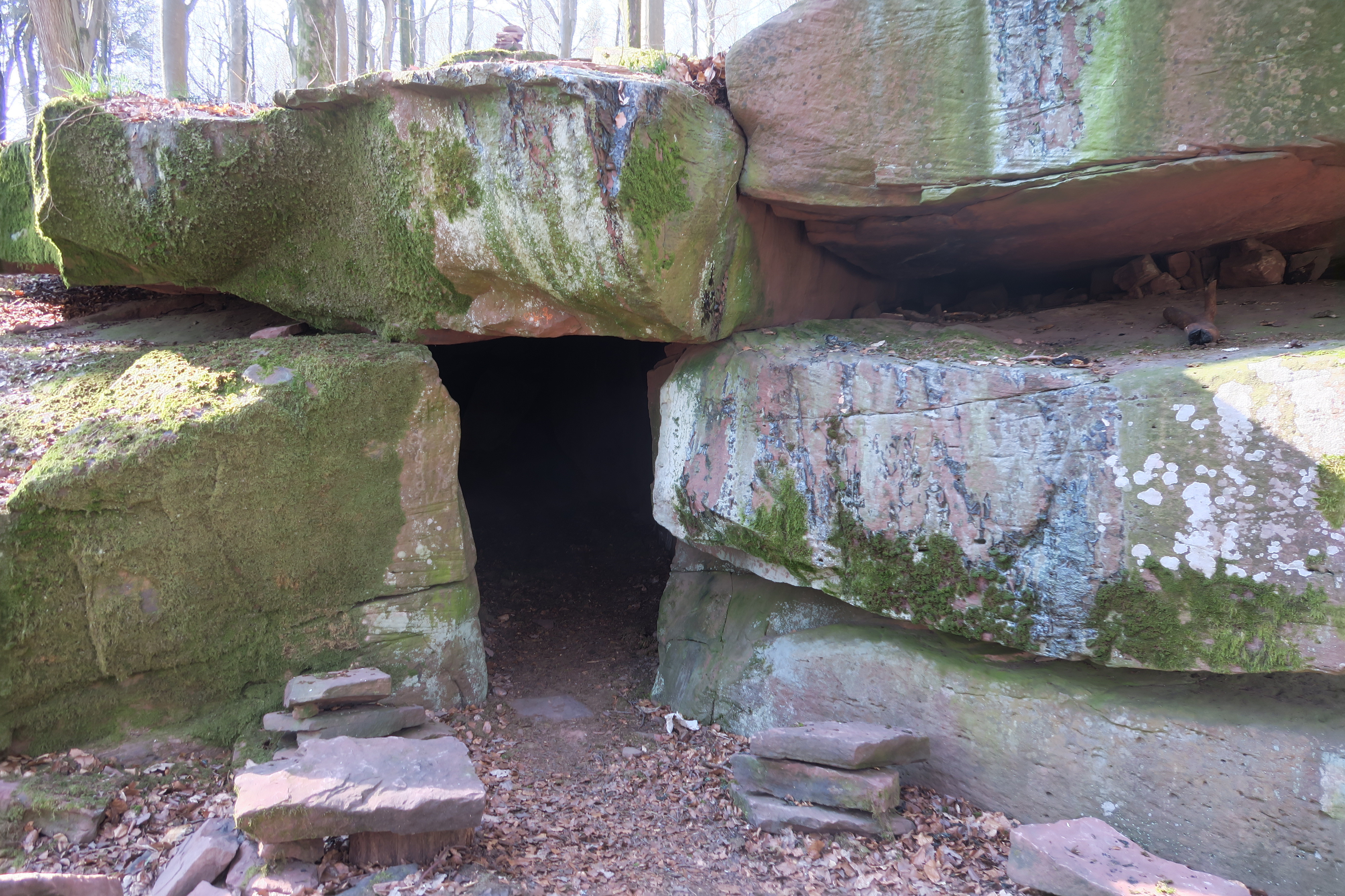 Stone House 2